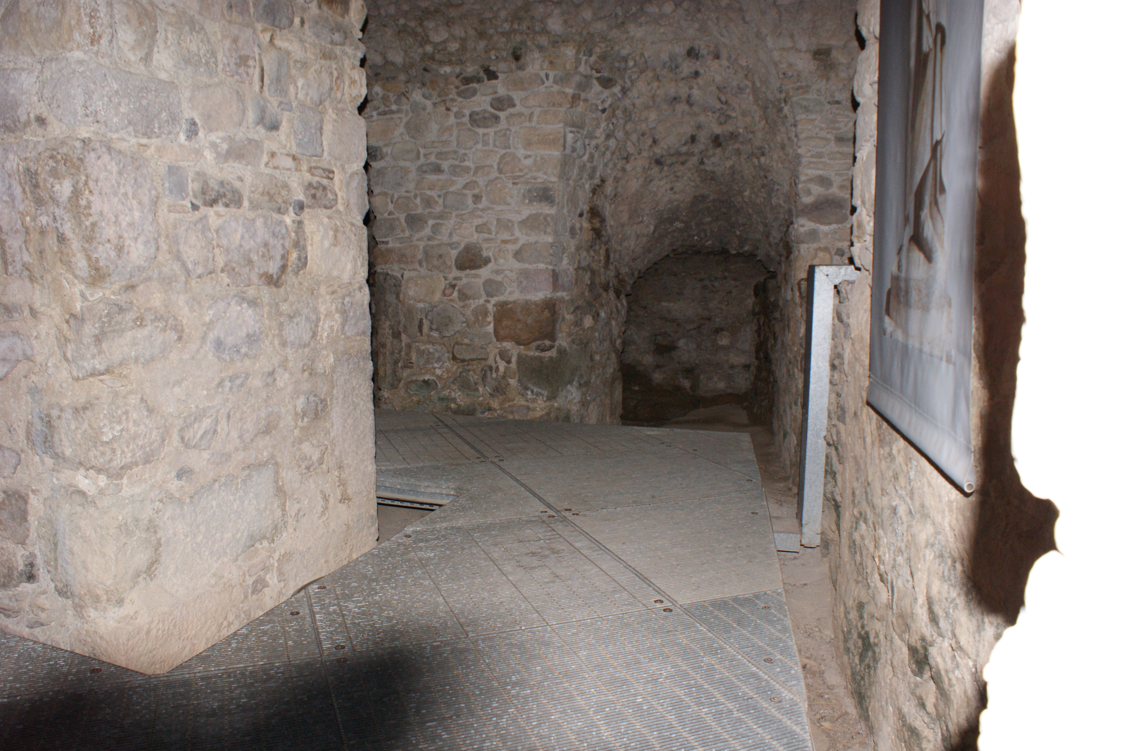 This Roman odeon (odeum, Greek: Ρωμαϊκό ωδείο) is located in the city of Kos (Κως) on the Greek island of Kos (Κω). The Odeon was discovered in 1929 by the Italian archaeologist Luciano Laurenzi during an excavation. The Odeon was built in the 2nd century after Cristus. The building was originally designed for a capacity of approx. 750 people.